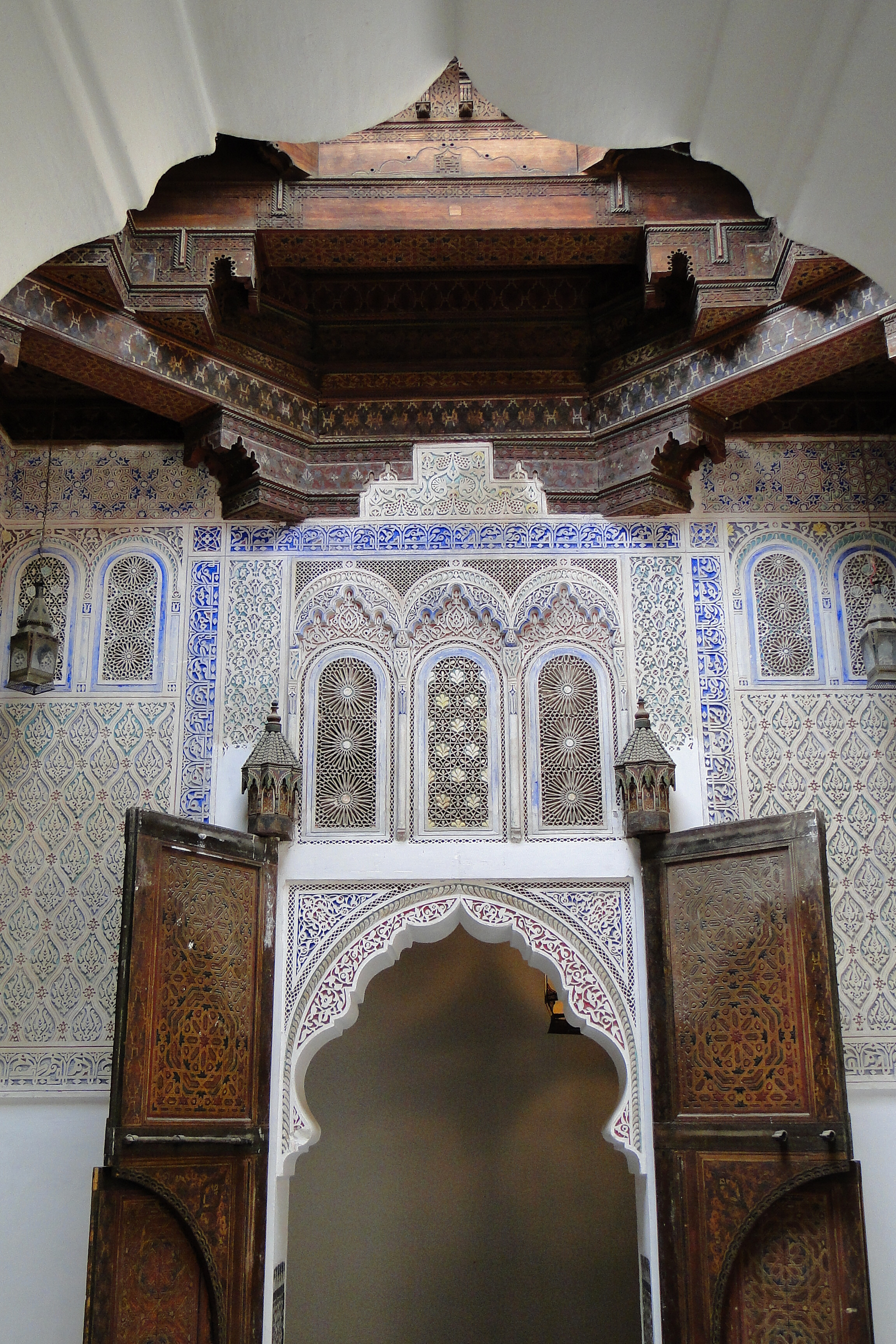 Detail of Dar Jamai Museum - Medina (Old City) - Meknes - Morocco - 02